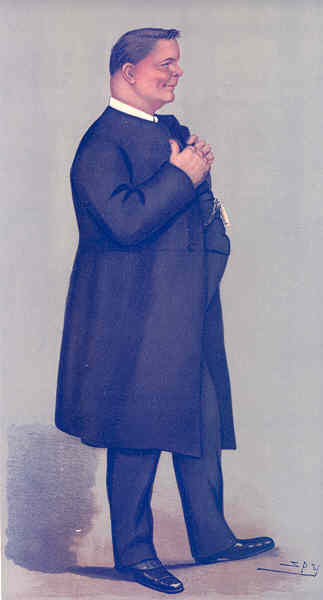 Caricature of James Edward Cowell Welldon, Bishop-Designate of Calcutta.